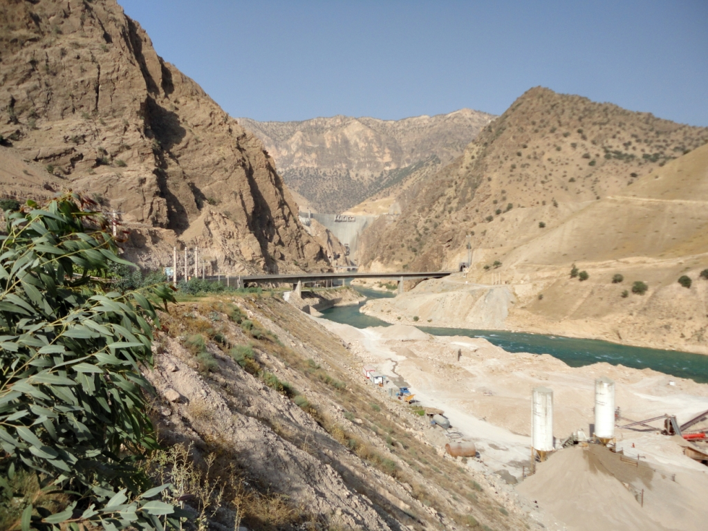 Karun-4 Dam